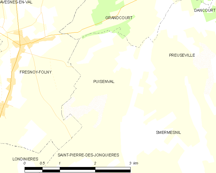 Map of French municipality Puisenval